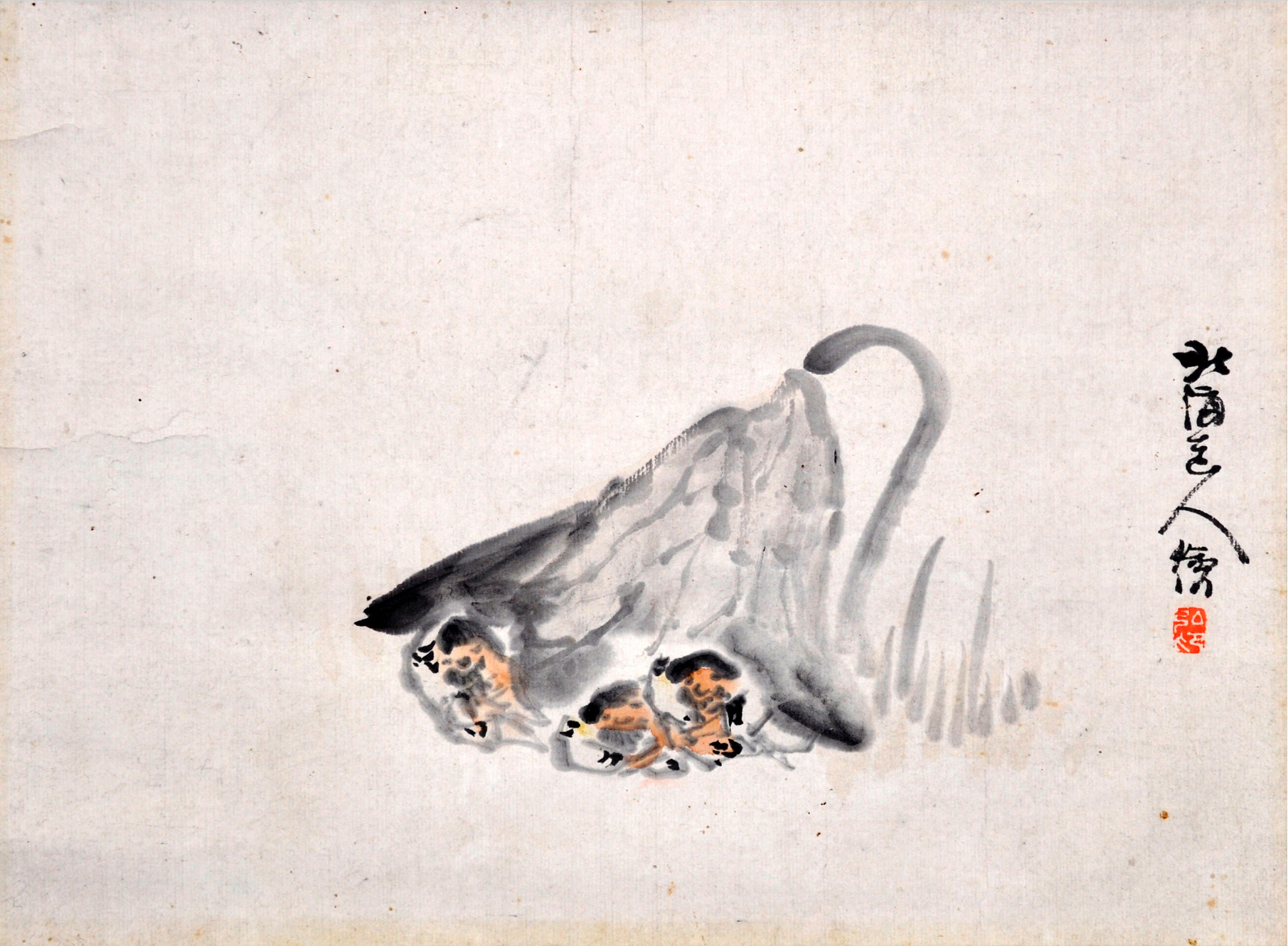 Koropokkuru Beneath a Butterbur by Matsuura Takeshiro, Hakodate City Museum, Hokkaido, Japan